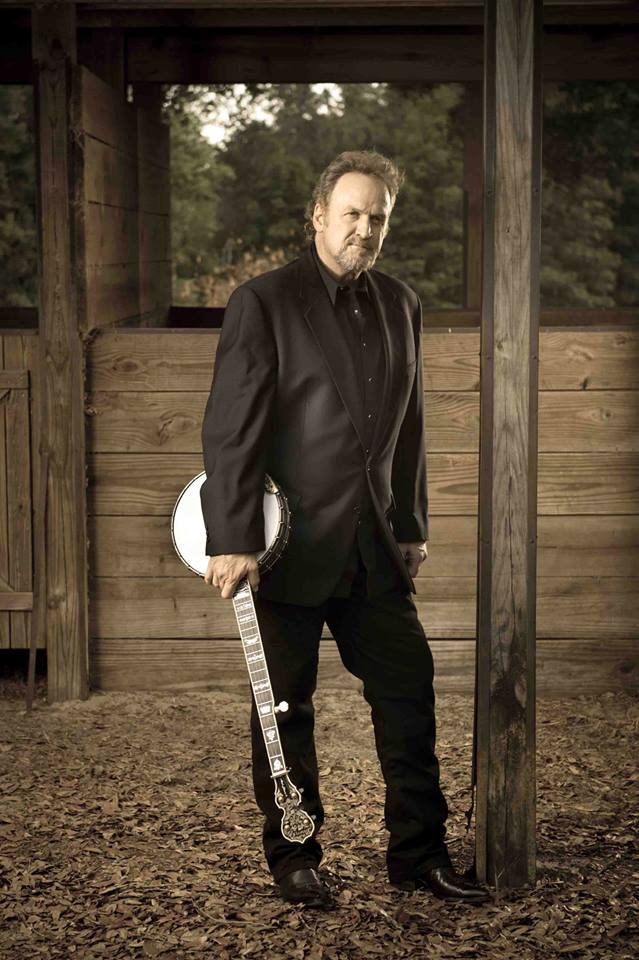 Mark Johnson in promotional photograph.